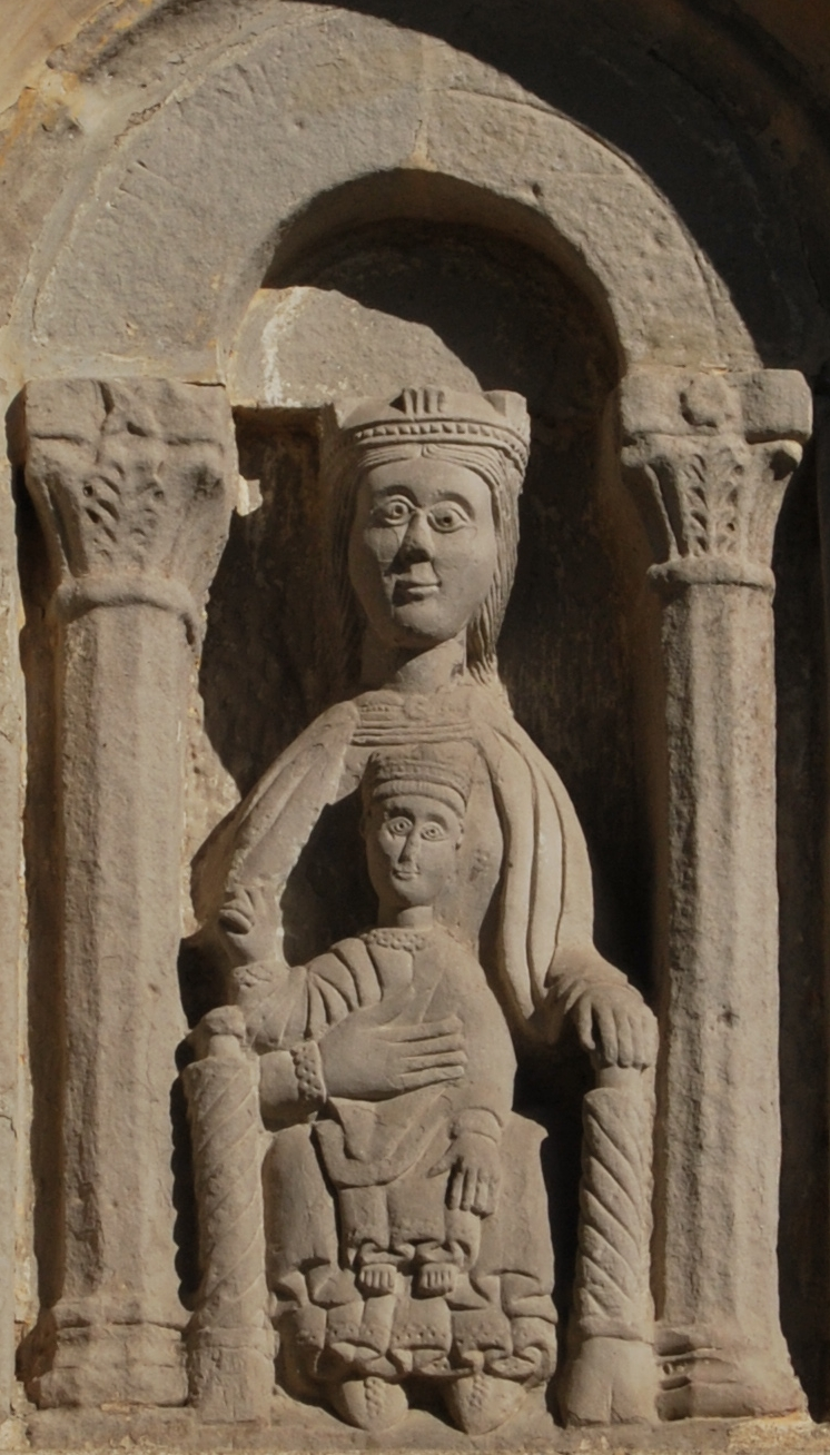 Virgin and Child, XIIth century, cistercian abbey of Our Lady of Bonneval, France. Typical of french romanesque art. Mary an Jesus, not so hieratic, seem to be smiling.